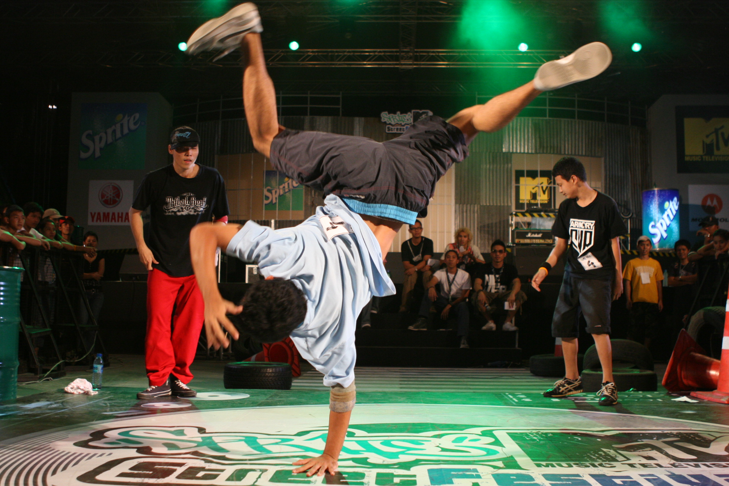 Thai Breakdancers at MTV Street Festival, Thailand